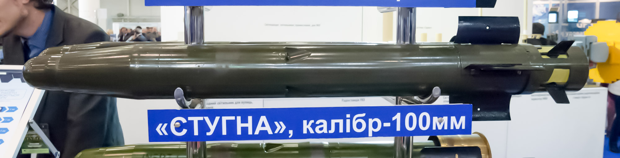 Stugna 100mm guided missile, Kyiv 2016